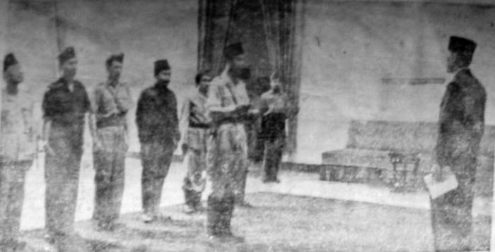 Sudirman being sworn in at the national palace